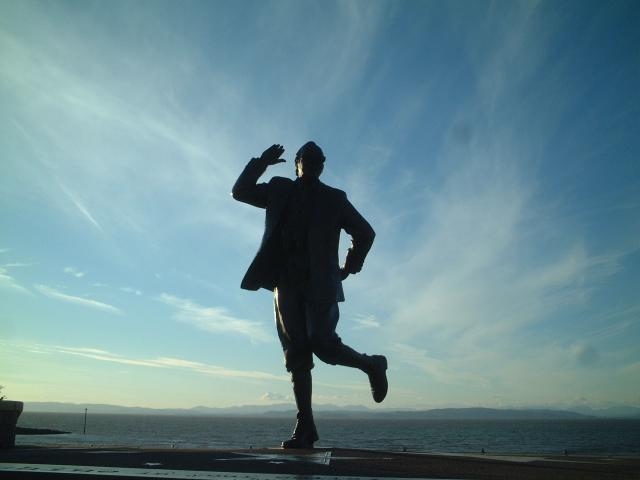 Eric Morecambe, Morecambe Bay and the Lake District hills. Statue on the Morecambe sea front with the Lake District in the distance.